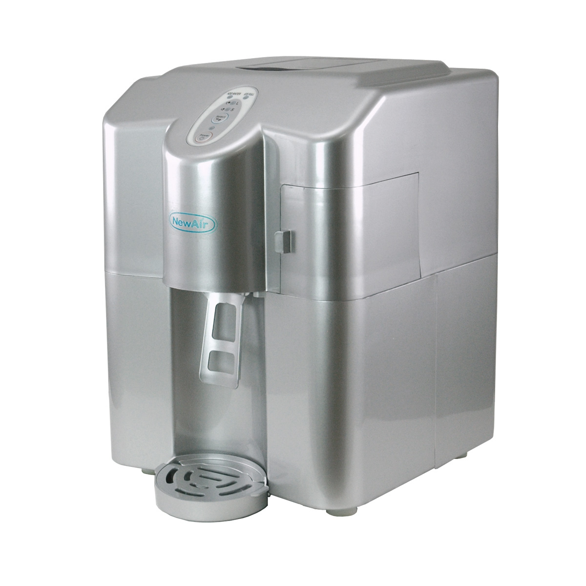 Image of a portable ice maker